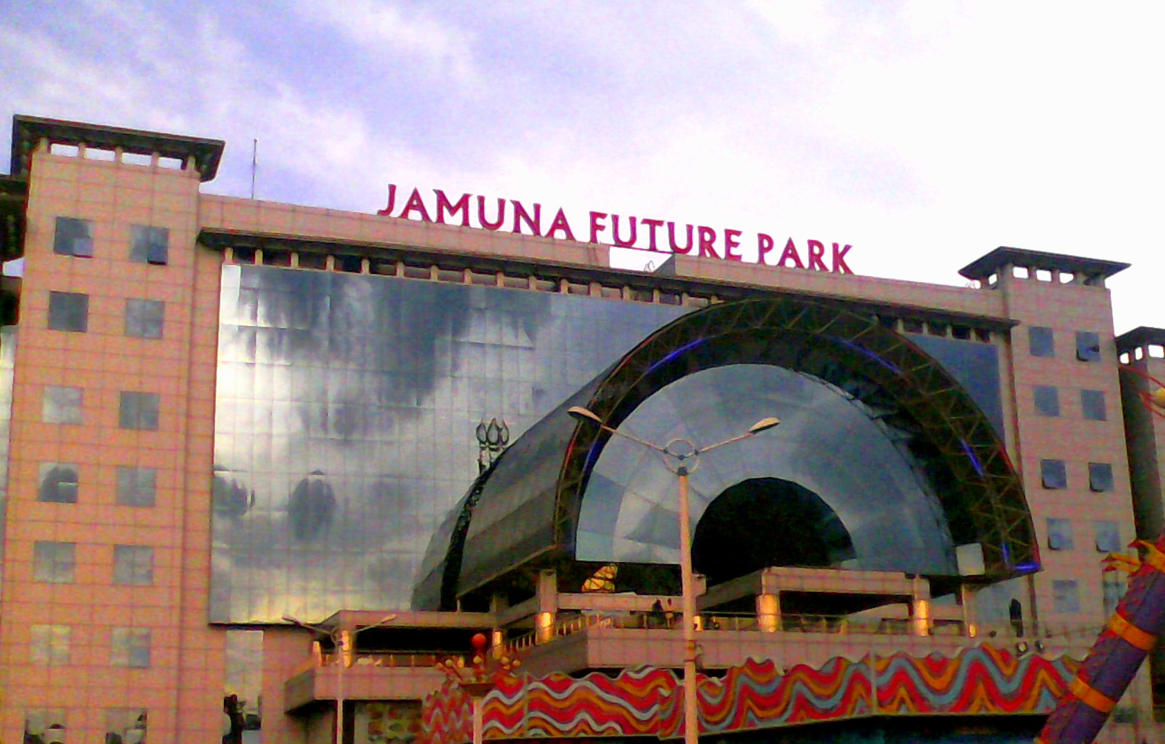 A view of Jamuna Future Park, Dhaka, Bangladesh